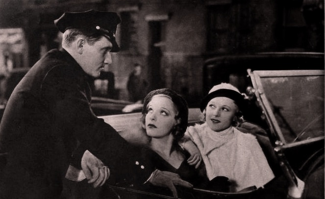 Spencer Tracy, Sally Blane e Sally Eilers in Desorderly Conduct (1932).